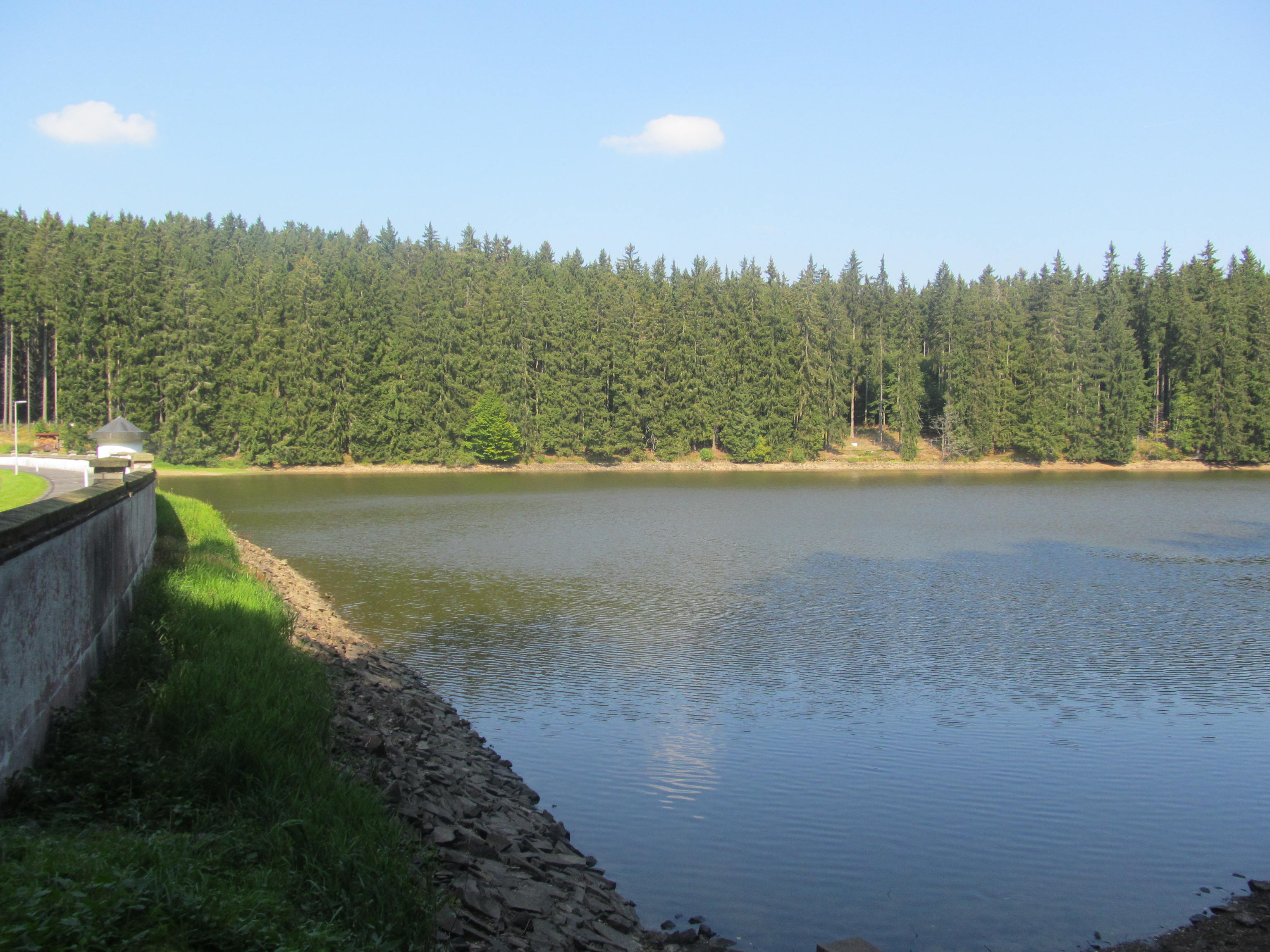 Reservoir Mariánské Lázně